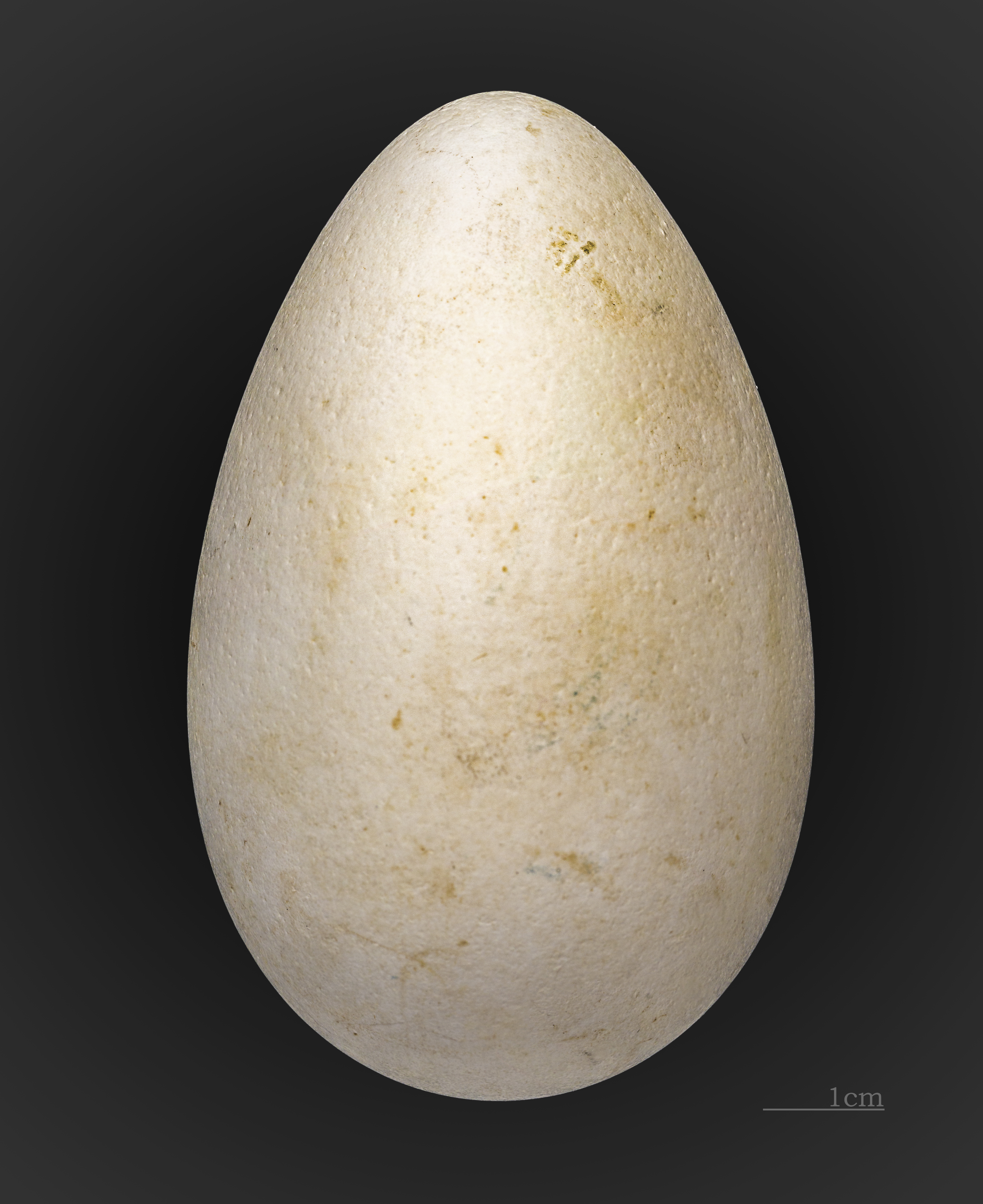 Egg of Cory's shearwater. Collection of René de Naurois /Jacques Perrin de Brichambaut.